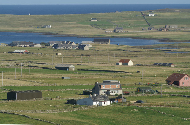 Baliasta and Baltasound from Houlland The houses in the foreground are in Baliasta with the housing schemes at Millburn Park and Daisy Park and the shop at Skibhoul beside the voe at Baltasound in the distance.